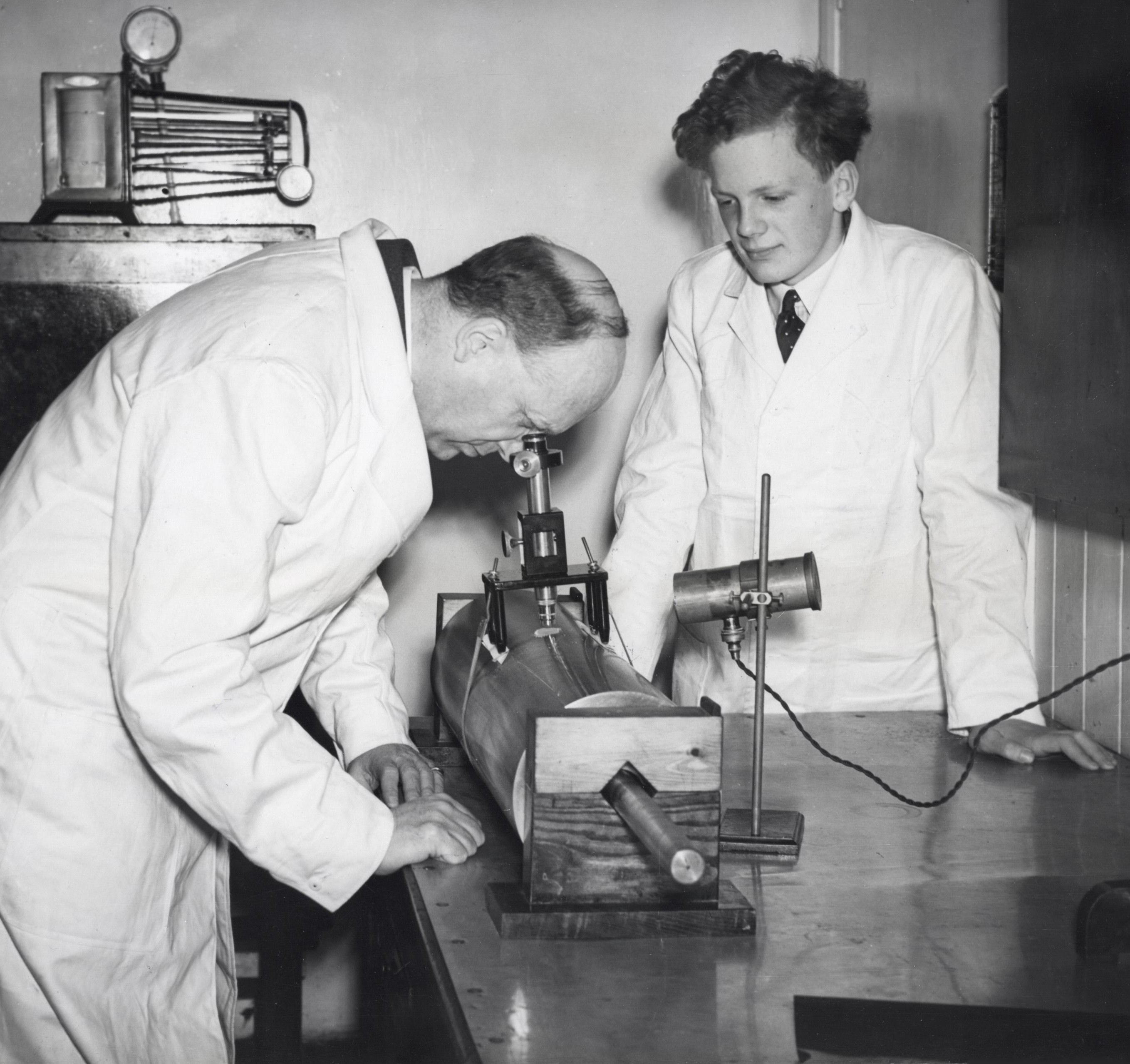 Robert John Strutt, 4th Baron Rayleigh and his youngest son Guy Strutt